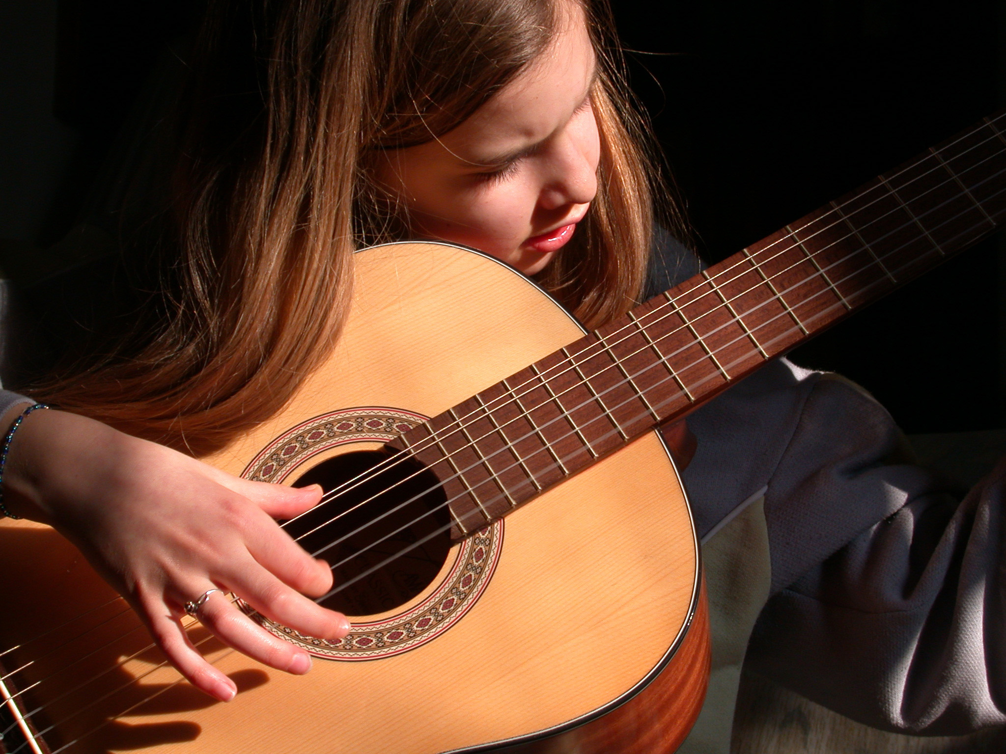 Guitarist little girl. (Dorothy Takacs) - Budapest, Hungary